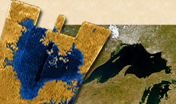 This side-by-side image shows a Cassini radar image (on the left) of Ligeia Mare, compared to Lake Superior (on the right). This close-up is part of a larger image (see PIA09182) and offers strong evidence for seas on Titan. These seas are most likely liquid methane and ethane. This feature on Titan is at least 100,000 square kilometers (39,000 square miles), which is greater in extent than Lake Superior (82,000 square kilometers or 32,000 square miles), which is one of Earth's largest lakes. The feature covers a greater fraction of Titan than the largest terrestrial inland sea, the Black Sea. The Black Sea covers 0.085 percent of the surface of the Earth; this newly observed body on Titan covers at least 0.12 percent of the surface of Titan. Because of its size, scientists are calling it a sea. The image on the right is from the Sea-viewing Wide Field-of-view Sensor (SeaWiFS) project, NASA's Goddard Space Flight Center, Greenbelt, Md. The Cassini-Huygens mission is a cooperative project of NASA, the European Space Agency and the Italian Space Agency. The Jet Propulsion Laboratory, a division of the California Institute of Technology in Pasadena, manages the mission for NASA's Science Mission Directorate, Washington, D.C. The Cassini orbiter was designed, developed and assembled at JPL. The radar instrument was built by JPL and the Italian Space Agency, working with team members from the United States and several European countries. For more information about the Cassini-Huygens mission visit